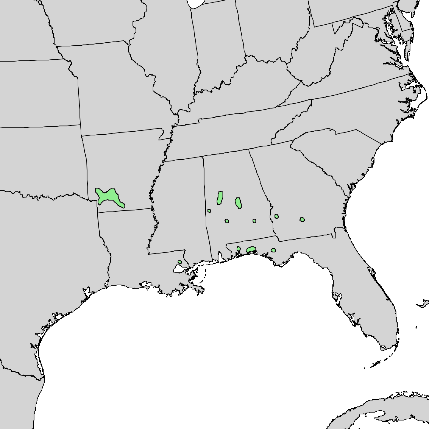 Natural distribution map for Quercus arkansana